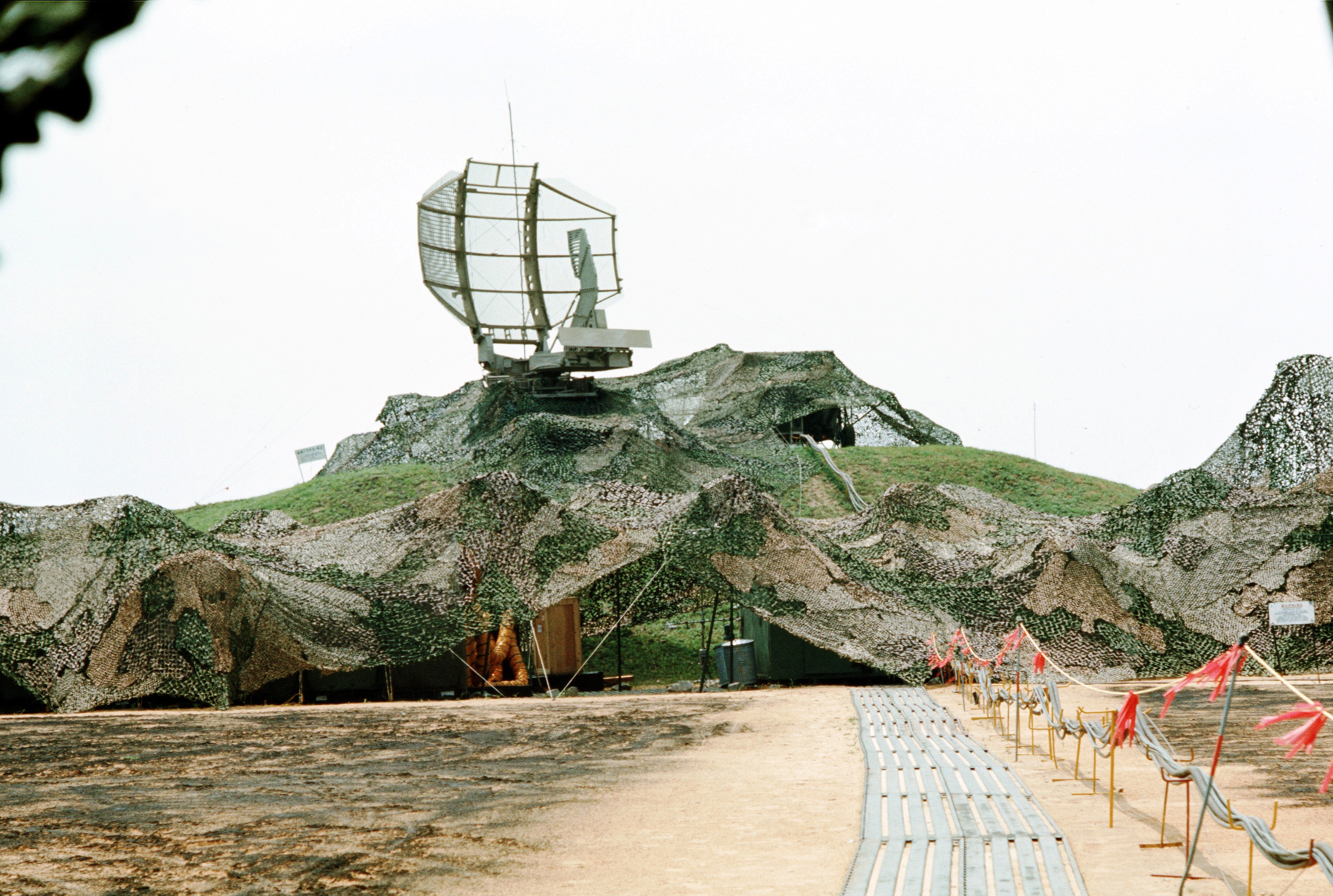 A view of a camouflaged AN/TPS-43 tactical 3-D radar antenna located behind the Tactical Air Control Center during joint readiness training exercise SOLID SHIELD '77.